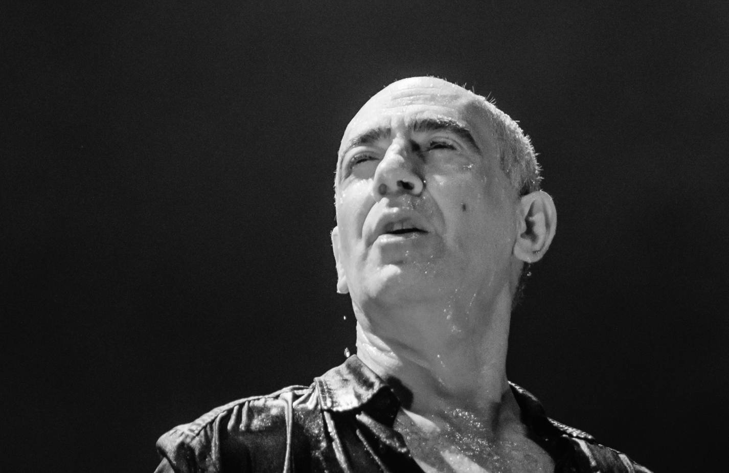 Gabi Delgado-López, Deutsch Amerikanische Freundschaft at the Amphi Festival 2015; Cologne, Lanxess Arena